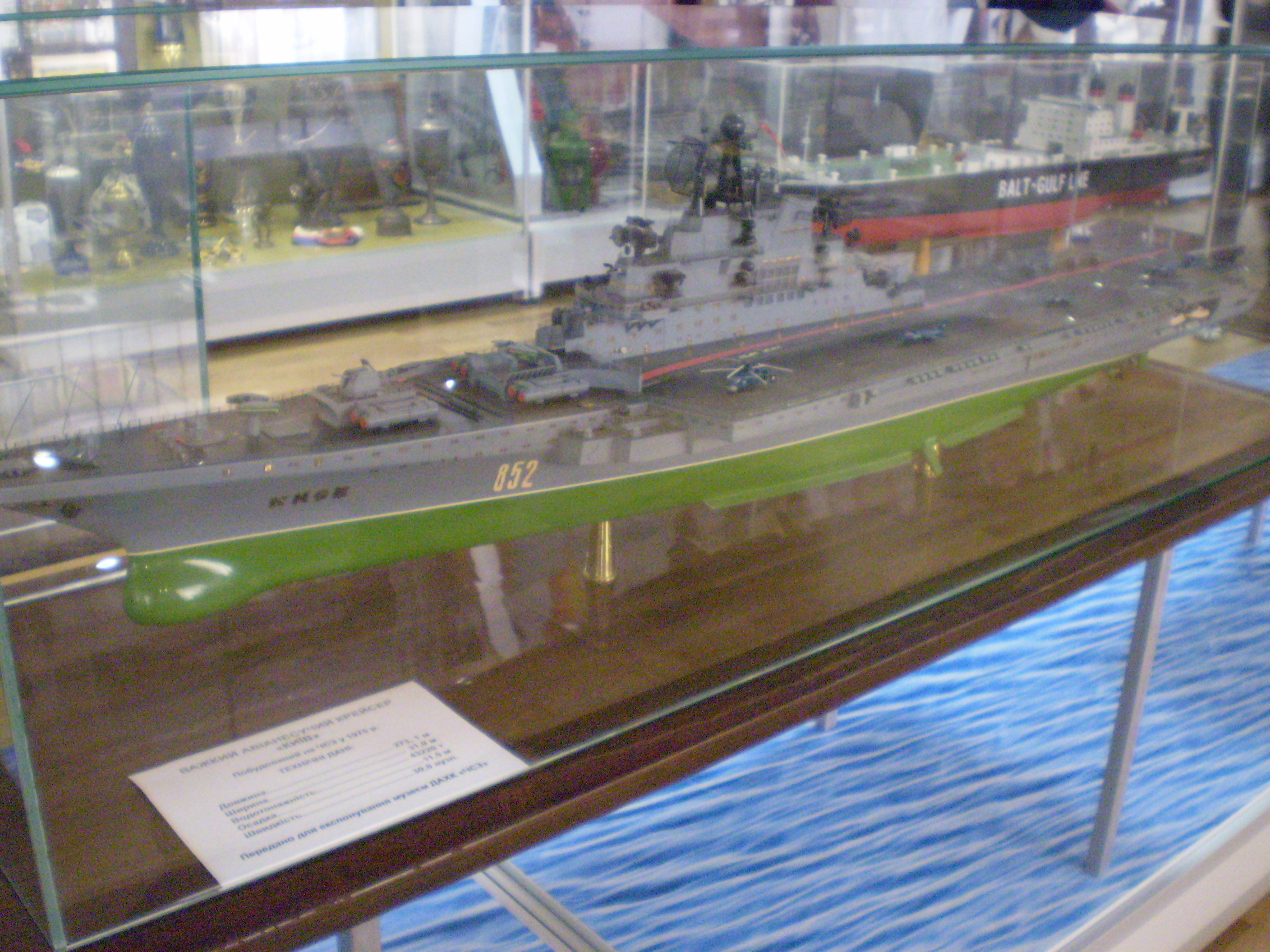 модель важкого авіанесучого крейсеру "Київ", побудованого на ЧСЗ в 1975 р. Миколаївська весна у Вікіпедії